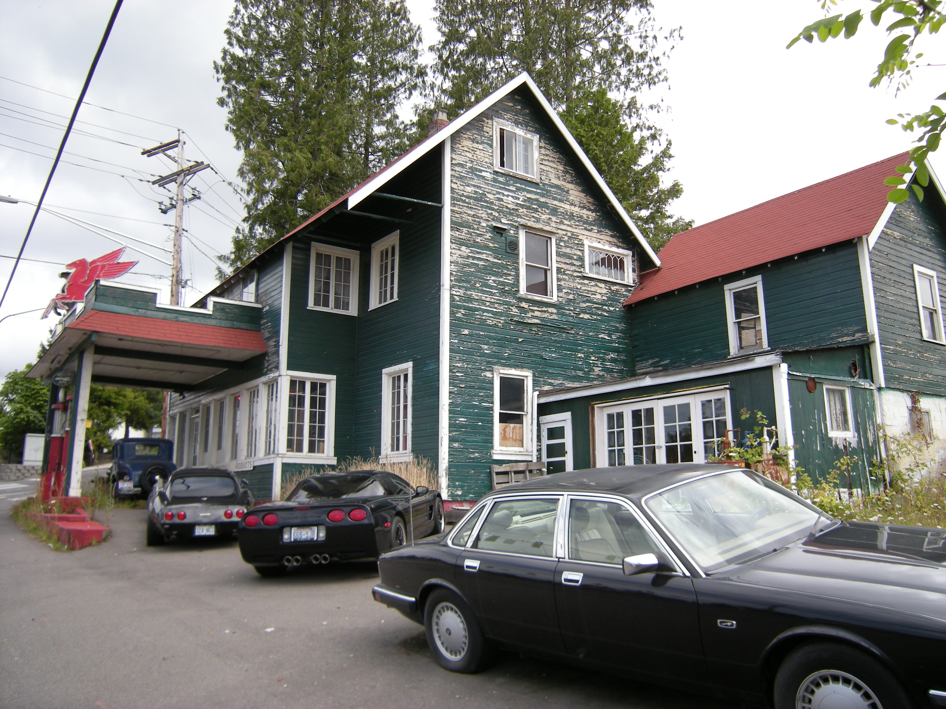 Keeler's Korner, Lynnwood, Washington, a former grocery store and gas station (built 1927) listed on the National Register of Historic Places, listed 1982, NRHP listing #82004287.